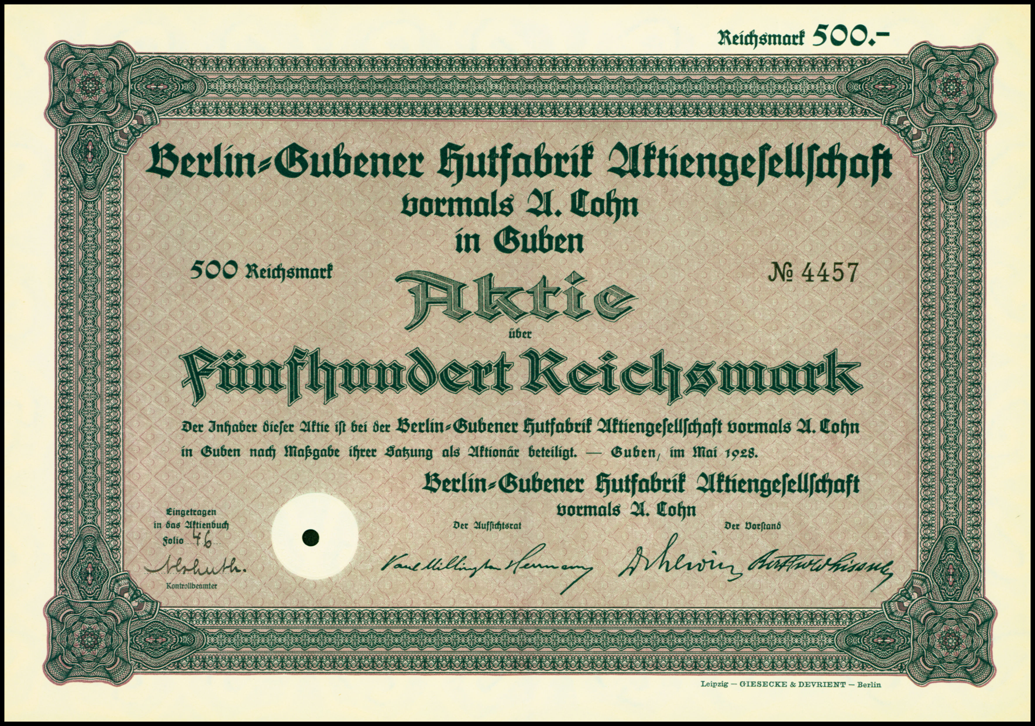 Share of the Berlin-Gubener Hutfabrik AG issued May 1928